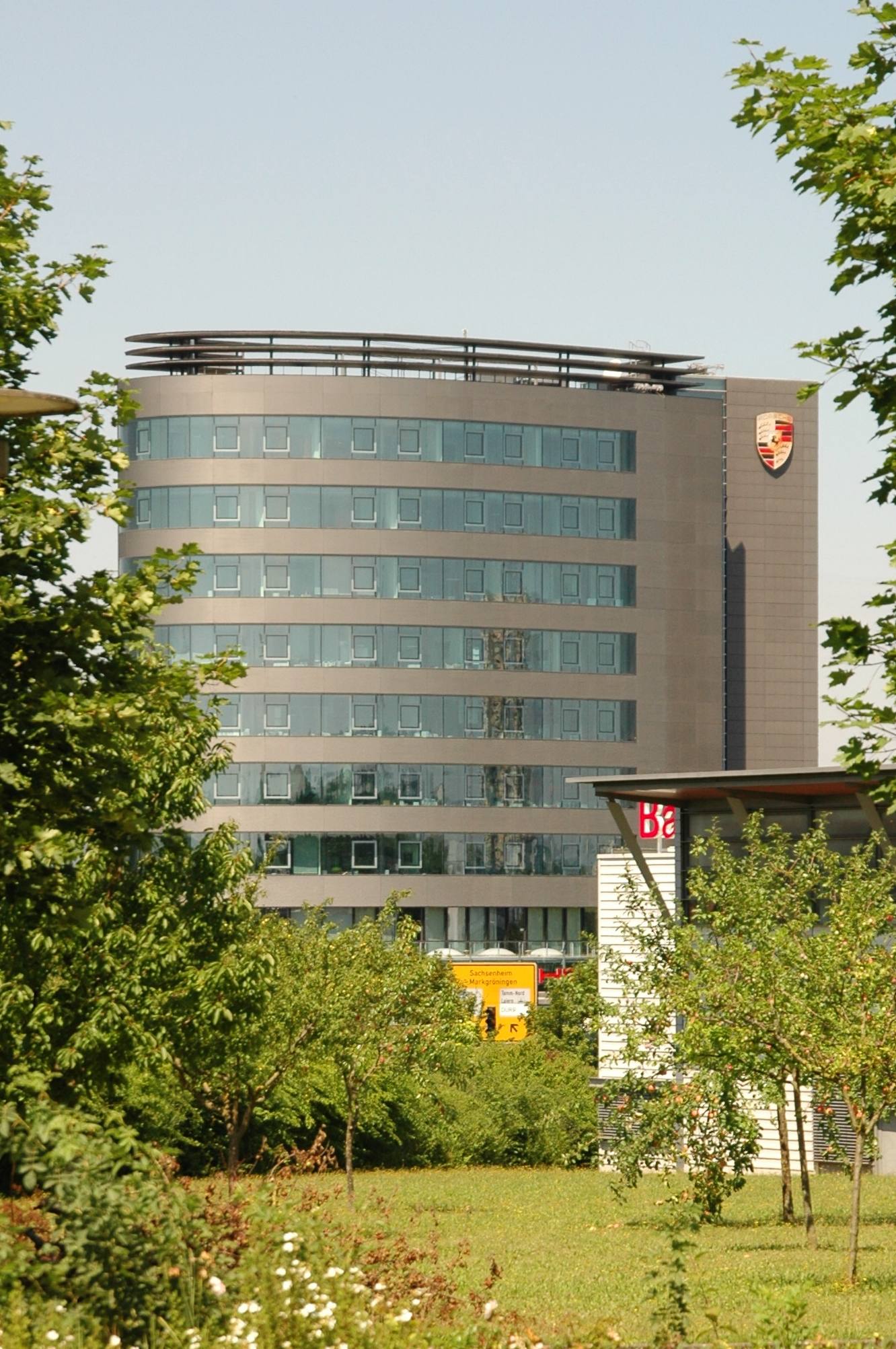 Porsche Engineering Services GmbH